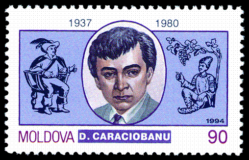 Stamp of Moldova